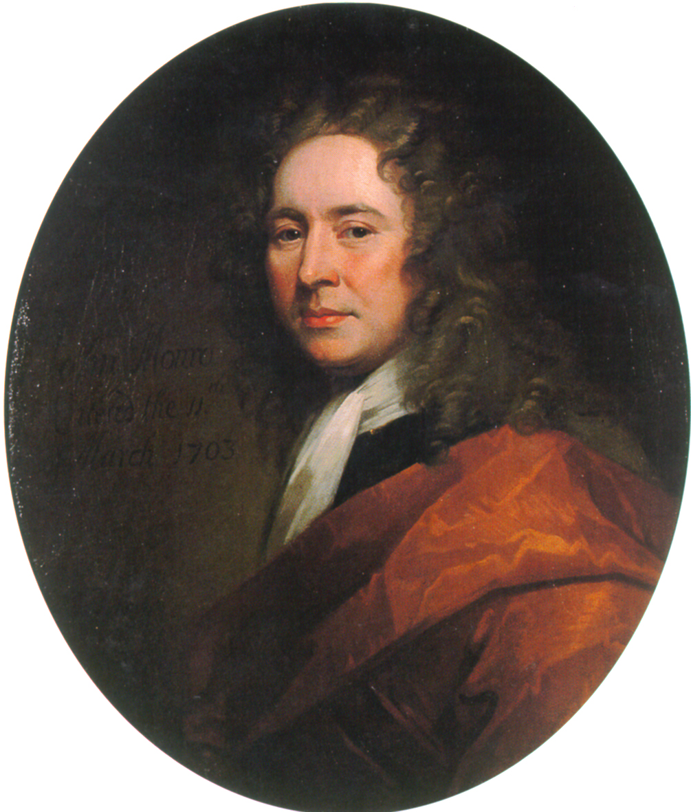 Portrait of John Monro held in the collection of The Royal College of Surgeons of Edinburgh